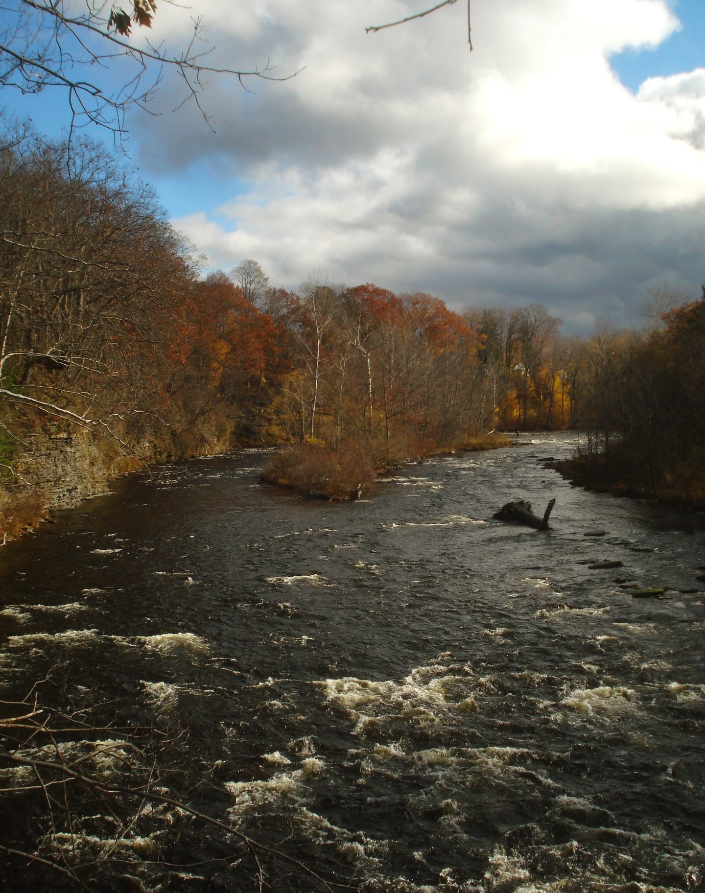 View of the Salmon River in the Village of Pulaski, Oswego County, NY, just upstream of the "Black Hole" angler access point.